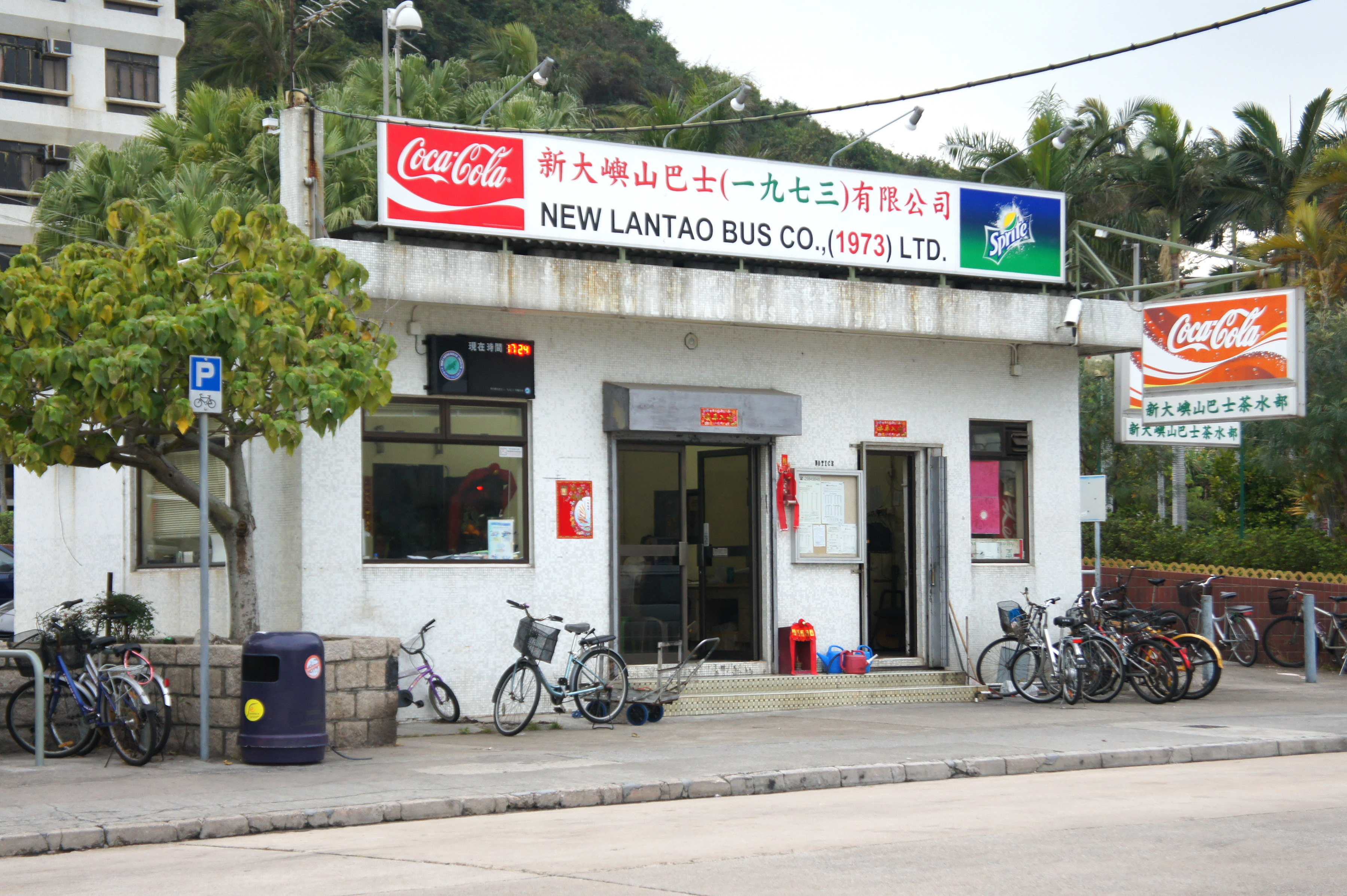 Mui Wo Bus Terminus Regulator's Office and Staff Canteen, Lantau Island, Hong Kong.